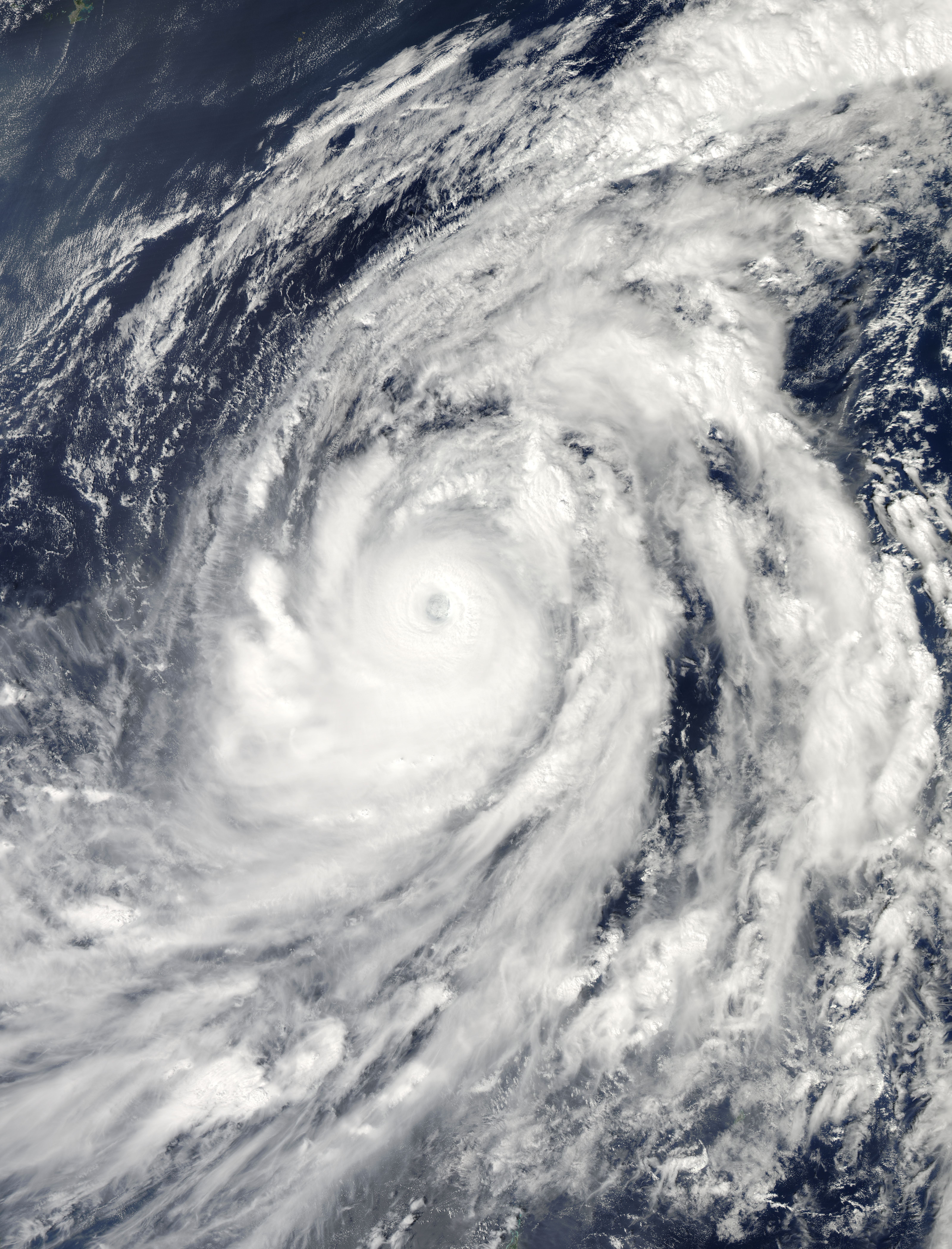 Super Typhoon Lupit on October 18, 2009.